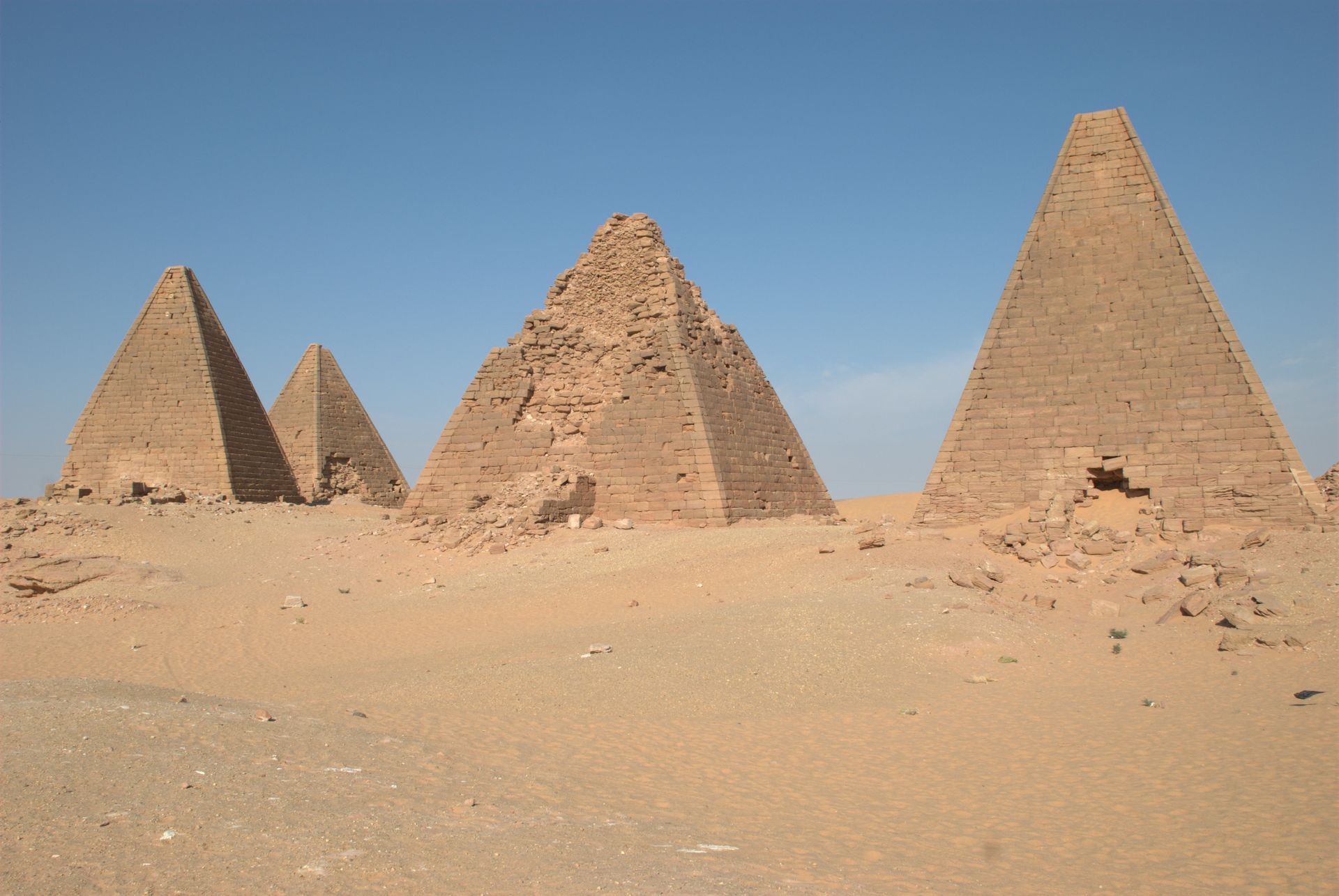 Pyramids west of Jebel Barkal, Sudan. North group